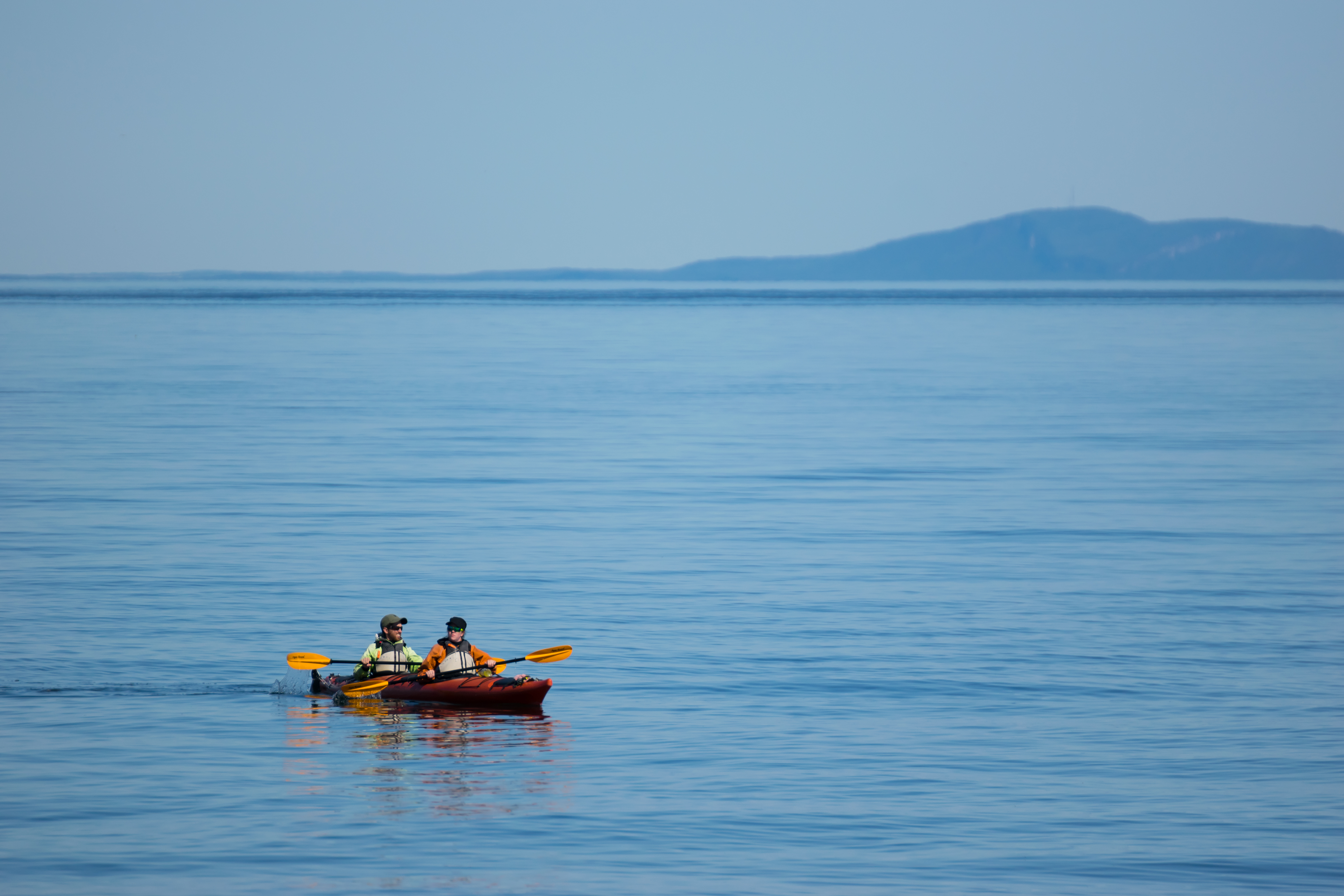 A sea kayak on the Saint Lawrence River, near Les Bergeronnes (Quebec, Canada).